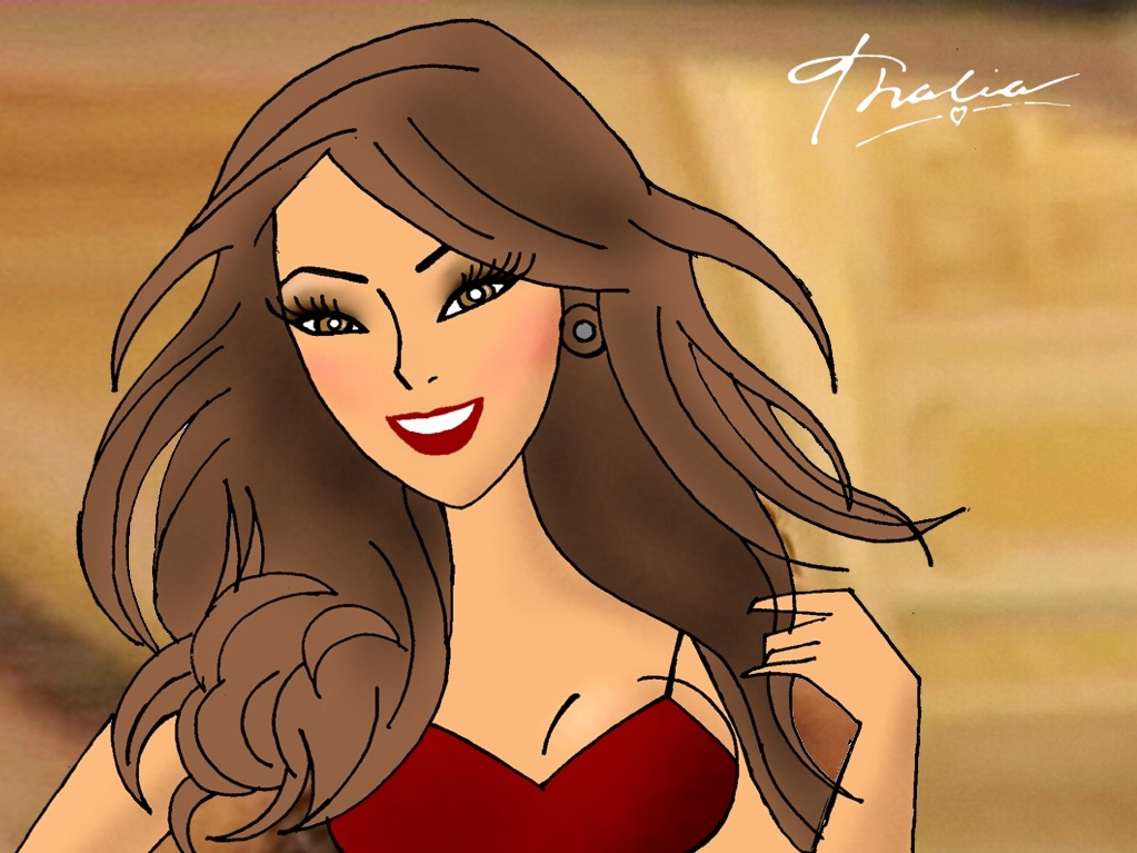 A caricature of Thalía